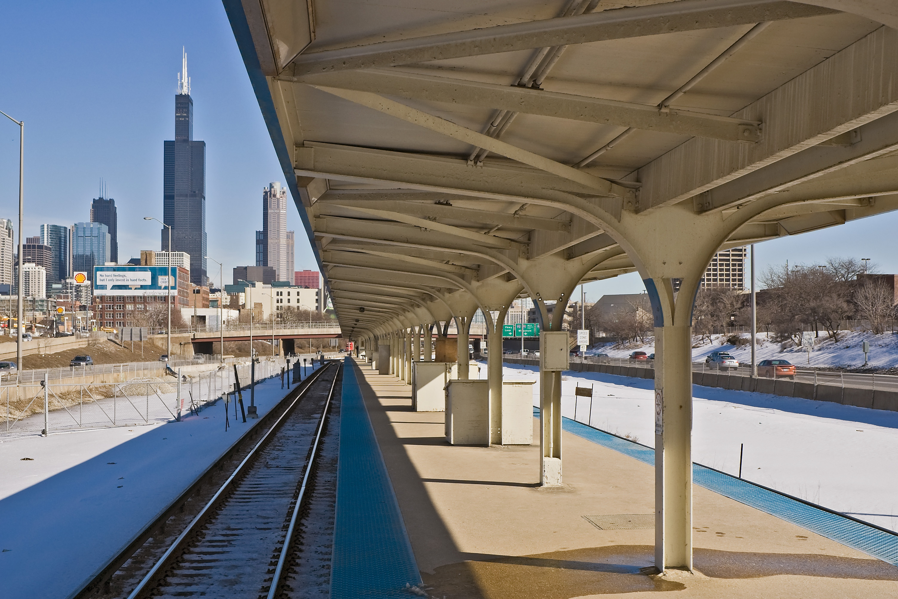 Racine 'L' station on the CTA Blue Line in Chicago, Illinois.